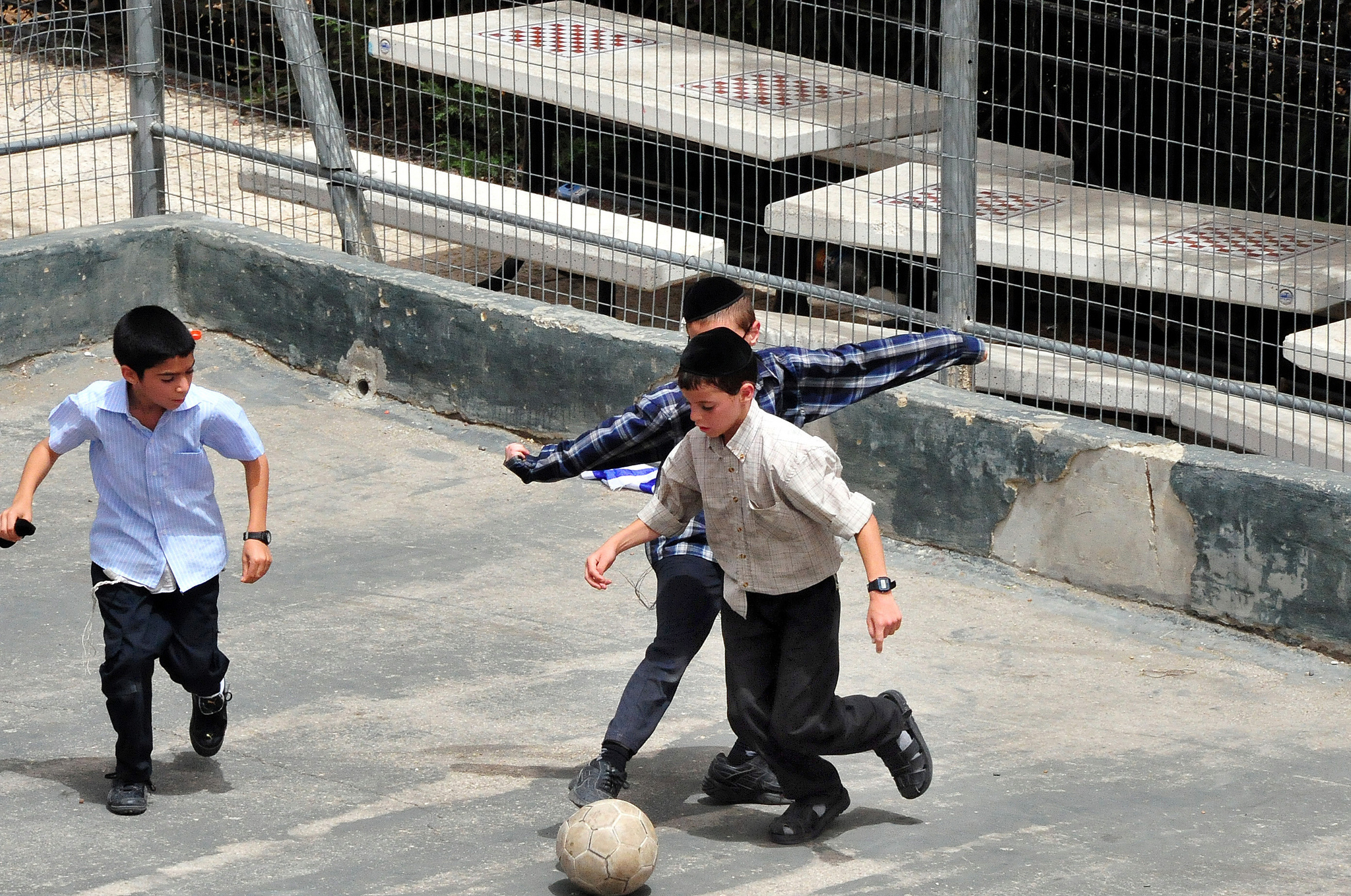 Old Jerusalem, Jewish quarter - Ha-Tkuma Garden (גן התקומה = Garden of the Resurrection) A cross section of daily life photos from Israel. Beyond the conflict photos that show various aspects of Israeli society and Culture